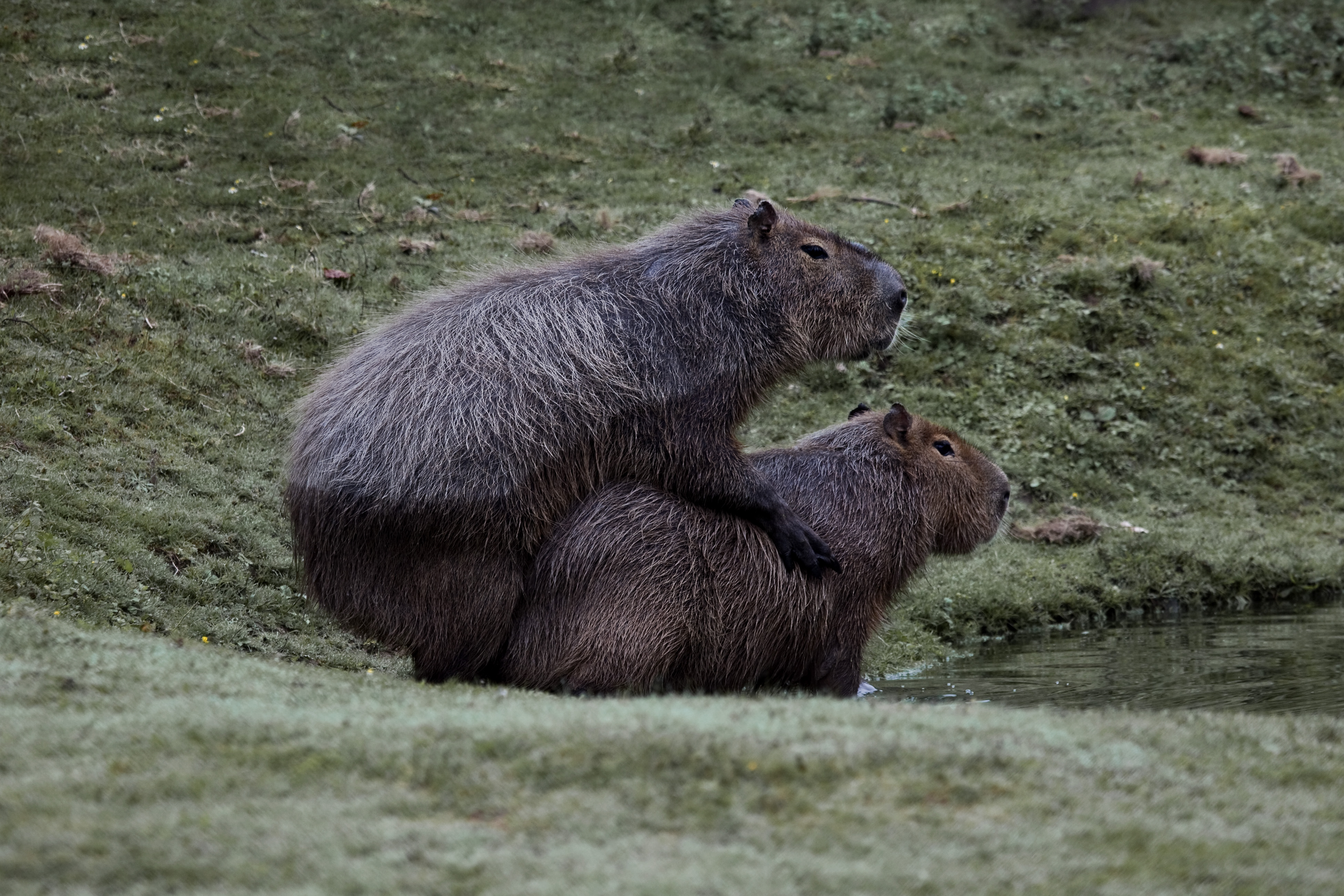 Capybaras mating.